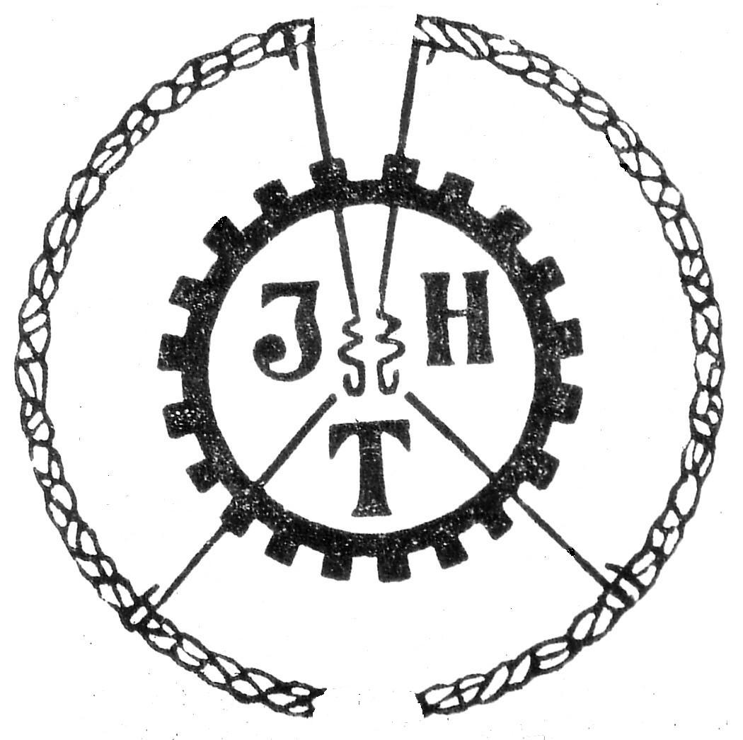 The by Johannes Hakenmüller created logo of his enterprise combines round the end of the 19th century the mechanical and stuff preconditions for successful manufacturing of textiles.